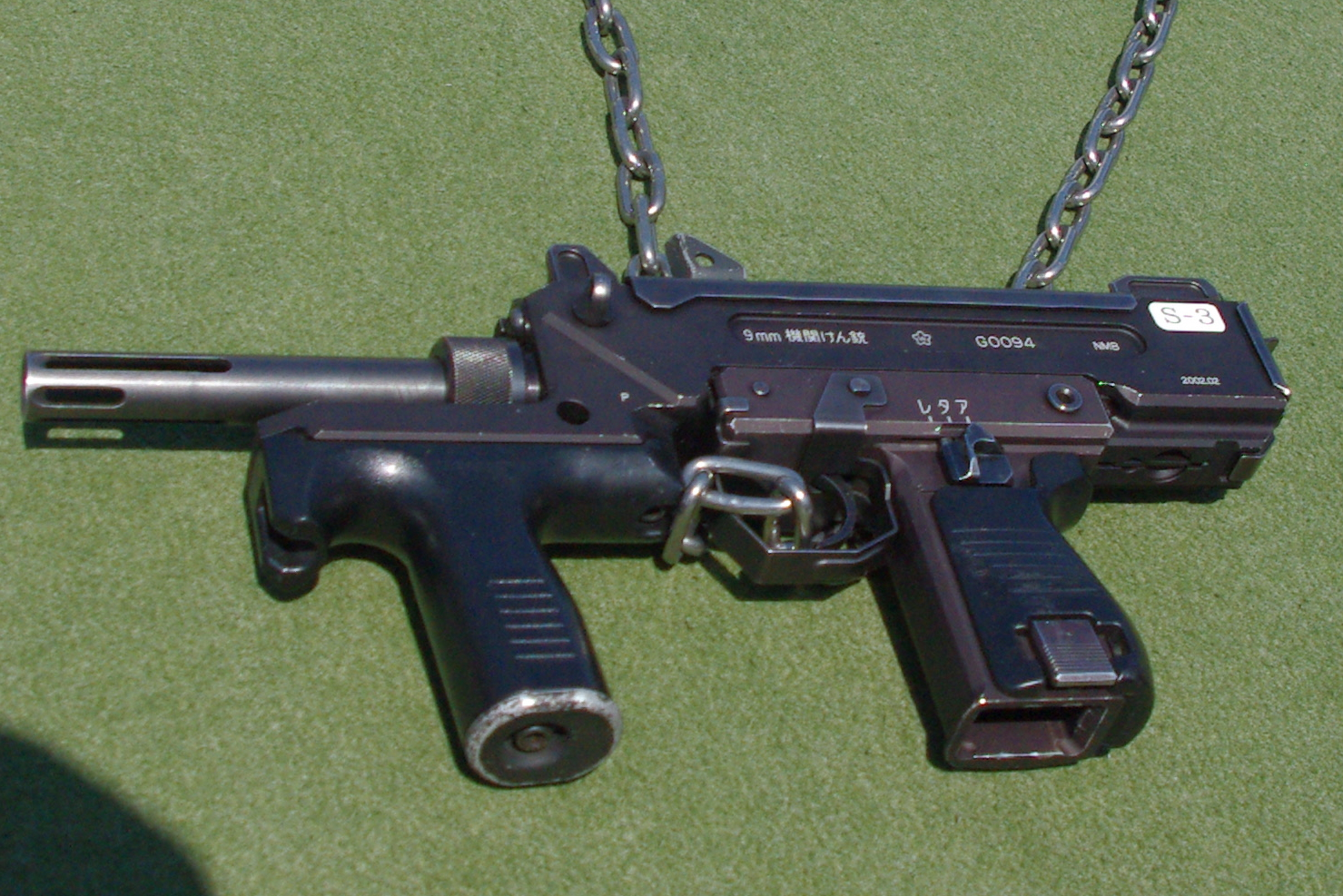 JGSDF Minebea 9mm submachine gun.Taken by Los688,in Camp Utsunomiya,Japan,at 08-Apr-2012.PD-self